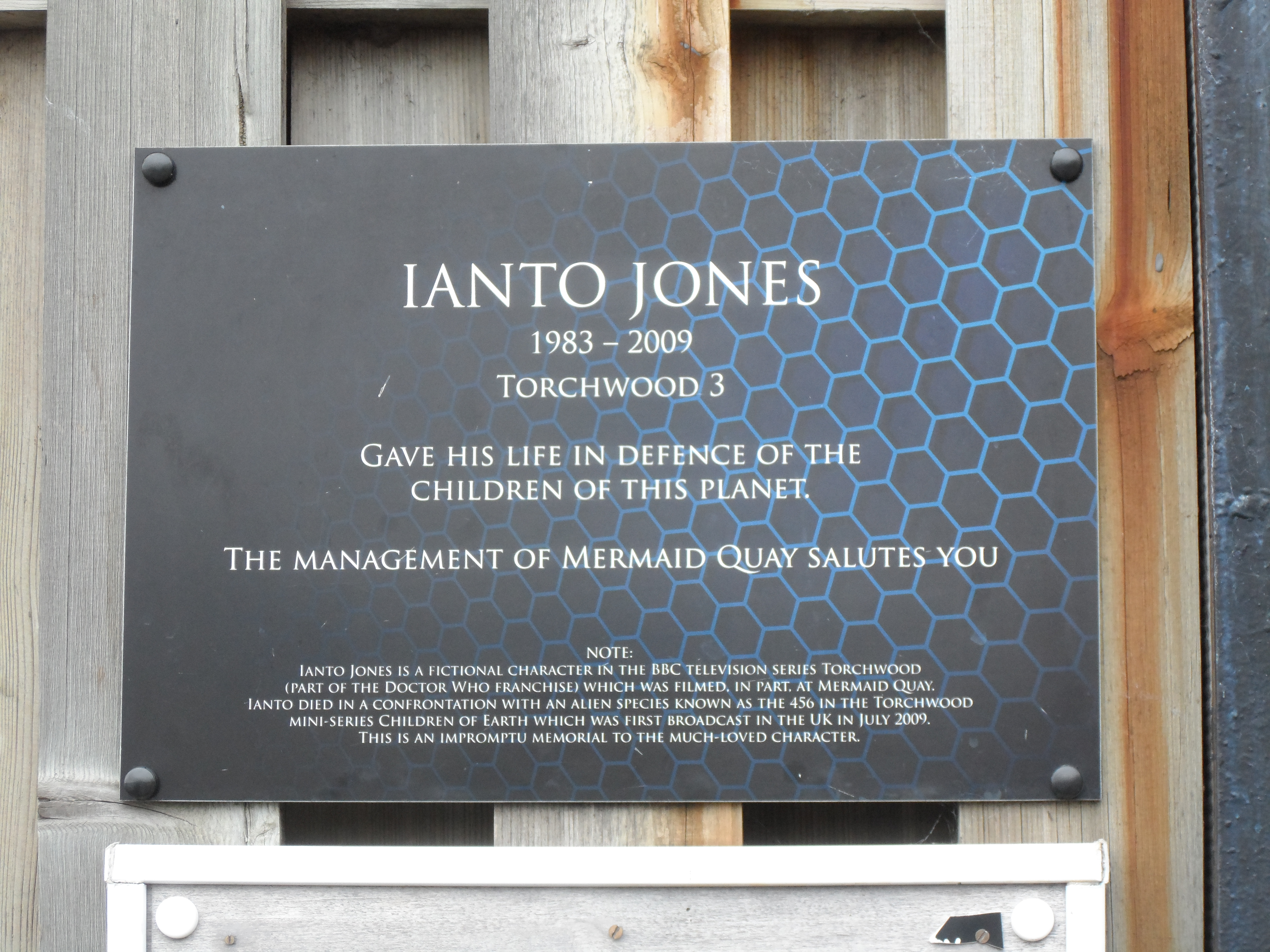 Ianto Jones 1983-2009 Torchwood 3 gave his life in defence of the children of this planet. The management of Mermaid Quay salutes you